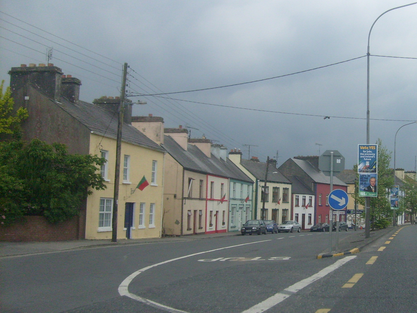 Ballindine, Co Mayo, Éire